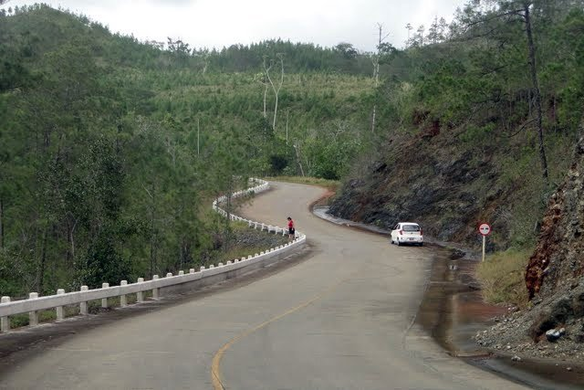 La Farola